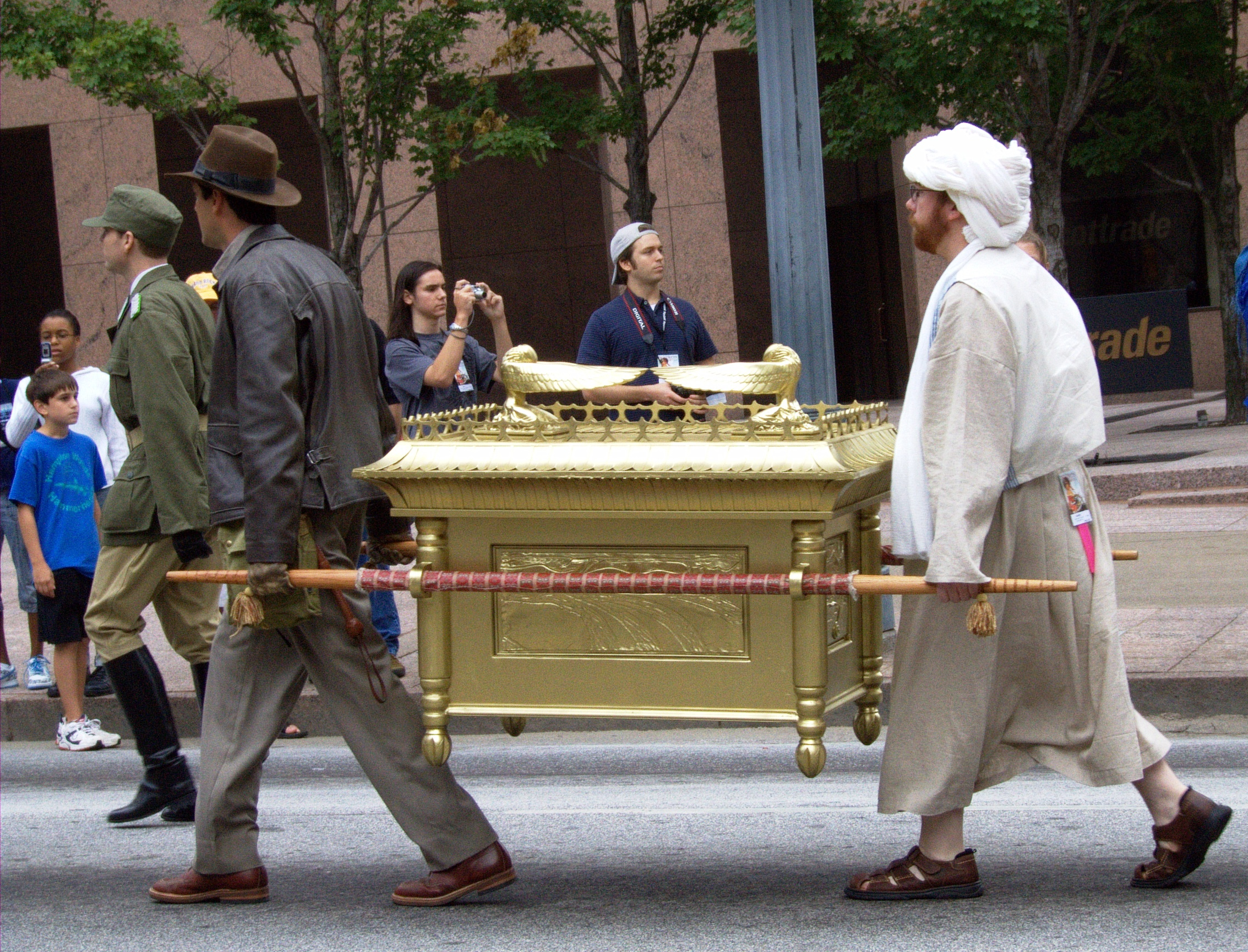 Indiana Jones and his Ark (parade, DragonCon 2006).